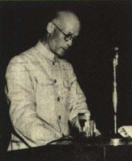 裴昌会。1950年，全国政协第一次代表大会